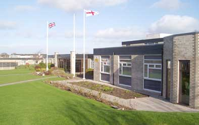 Front of Blackpool Sixth Form College